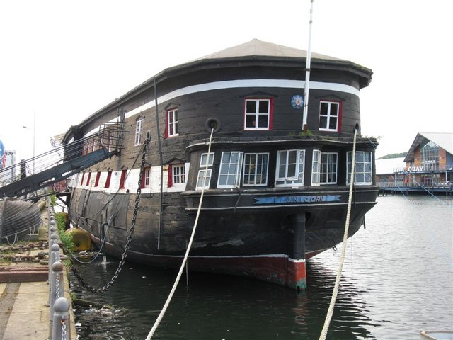 HM Frigate Unicorn, from the stern